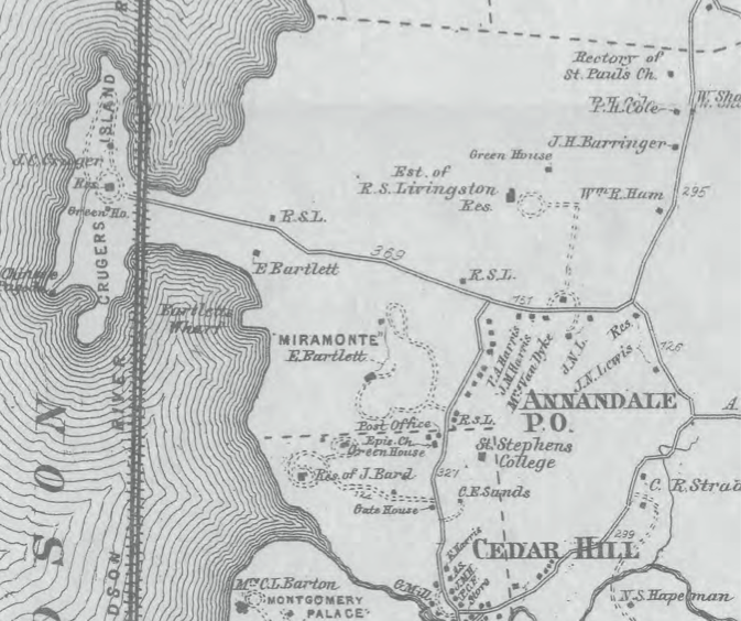 1867 Map of Dutchess County Showing Red Hook estates